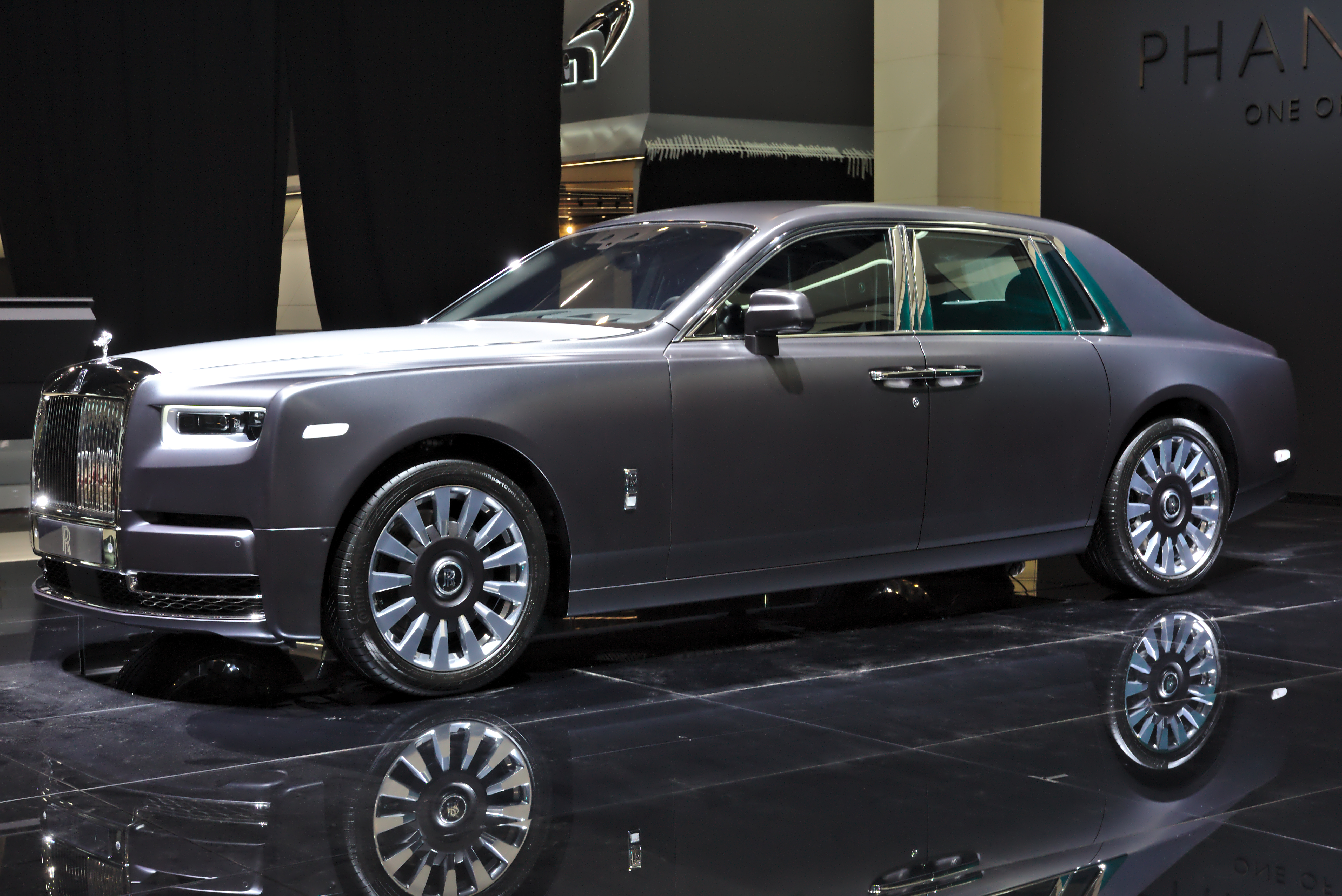 Rolls-Royce Phantom VIII at Geneva Motorshow 2018